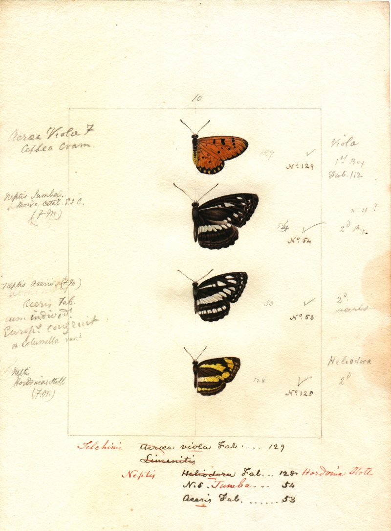 A watercolour plate by Robert Templeton held by the Ulster Museum. Pencil marks by Frederic Moore The species are 1. Acraea violae (Fabricius, 1793) India, Ceylon Synonyms Papilio violae Fabricius, 1793; Ent. Syst. 3: 460, Type Locality : Tranquebar, S.India Papilio cephea Cramer, [1780]; Uitl. Kapellen 4 (25-26a): pl. 298, f. D, E 2.Neptis jumba Moore, 1858; Proc. zool. Soc. Lond. 1858 3. Neptis aceris Lepechin 1774 4. Pantoporia hordonia (Stoll, [1790]) India , Ceylon - Tonkin, Malaysia, Andamans, Nicobars. Synonyms Neptis hordonia (Stoll, [1790]) Papilio hordonia Stoll, [1790]; Aanhaangsel Werk, Uitl. Kapellen (2-5): 149, pl. 33, f. 4, 4D, TL: "Guinea Coast, Africa" [error, Bengal] Neptis plagiosa Moore, [1879]; Proc. zool. Soc. Lond. 1878 (4) : 830